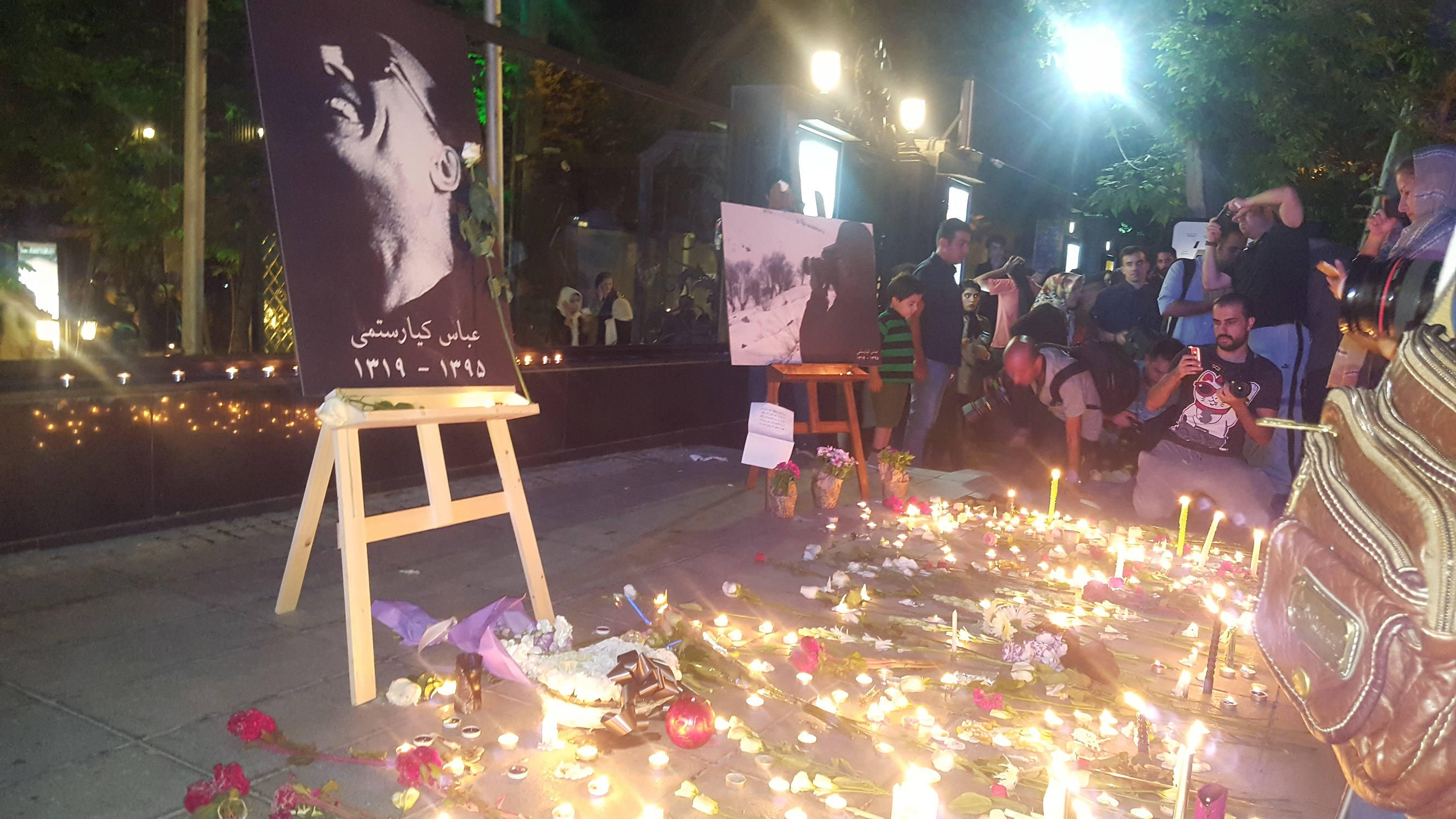 Abbas Kiarostami memorial at Tehran's Cinema Museum